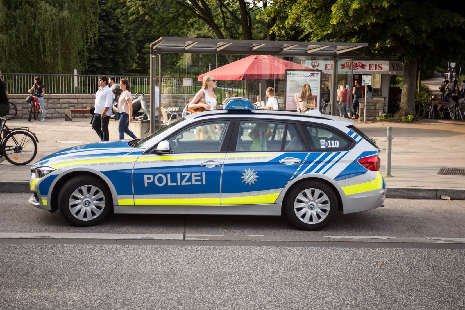 Bavarian police car at the G20 summit in Hamburg